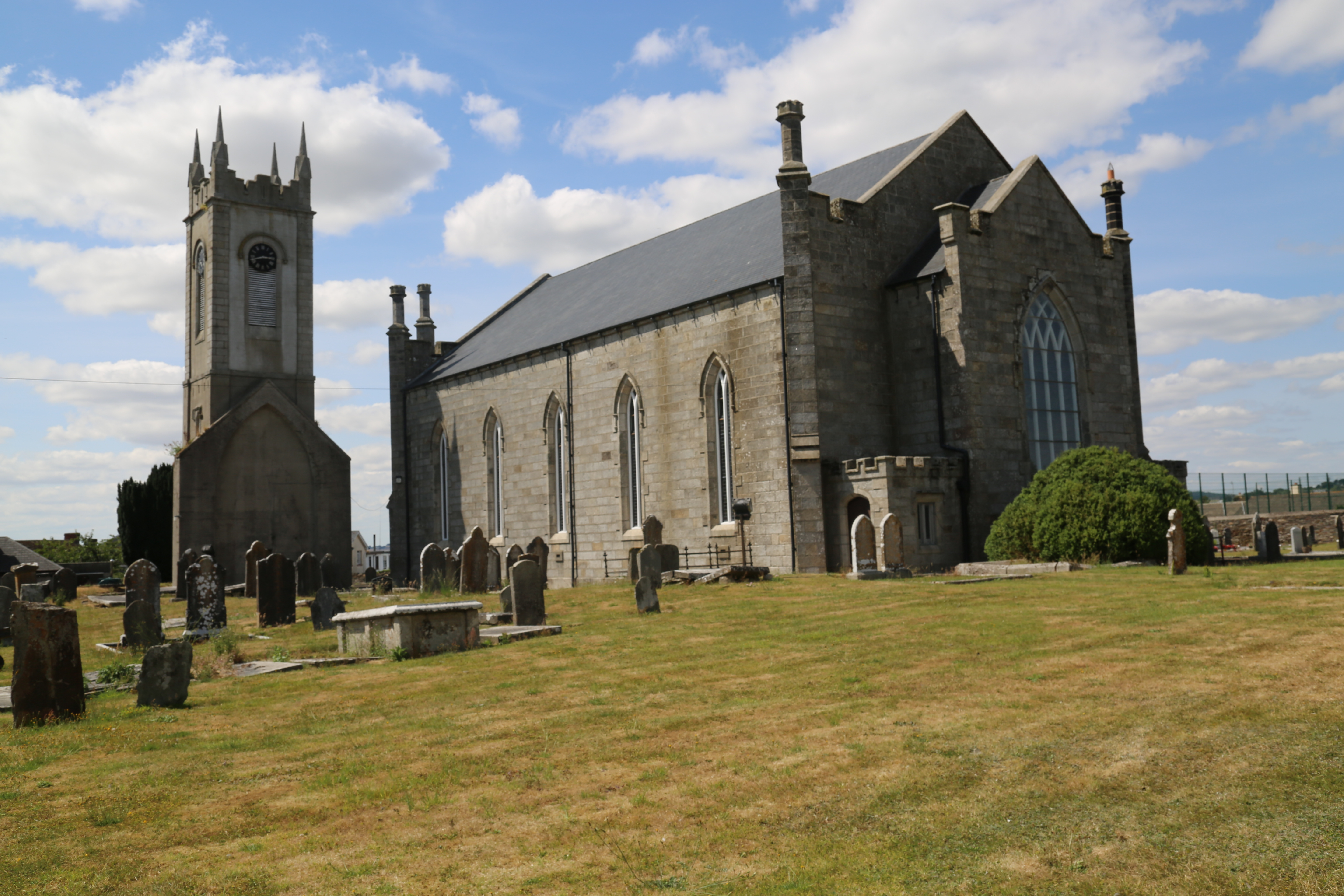 Carnew, All Saints Church. Wikidata has entry Q55030051 with data related to this item.